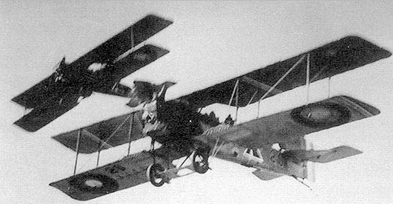 96th Aero Squadron - Breguet 14B2-Flying